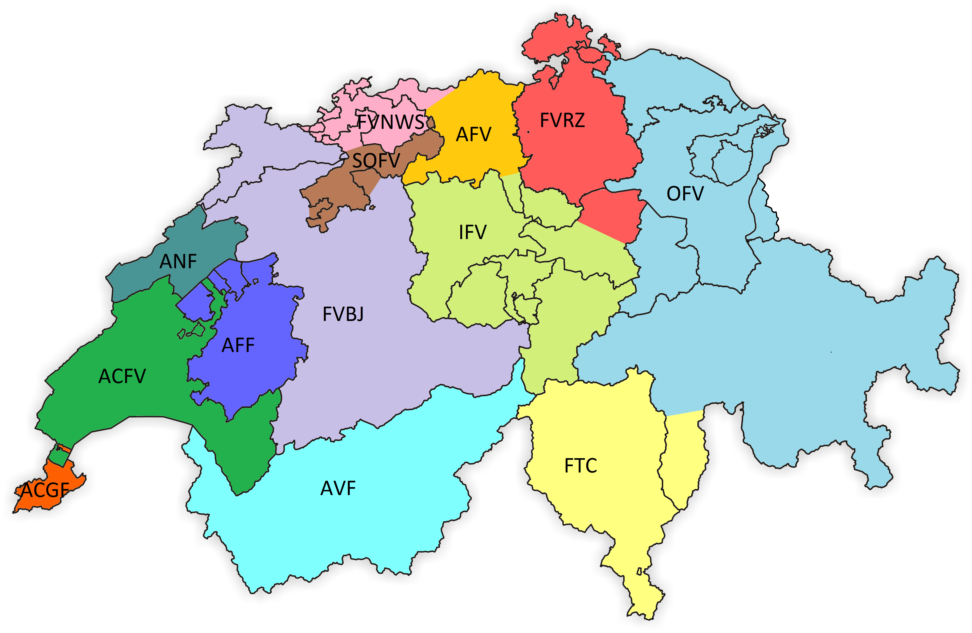 Swiss Football Association subdivisions